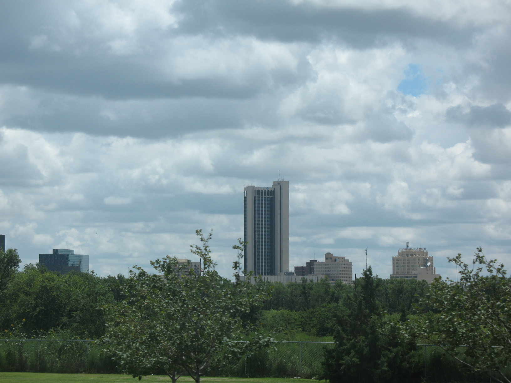 The Chase Tower seen from north of downtown Amarillo.